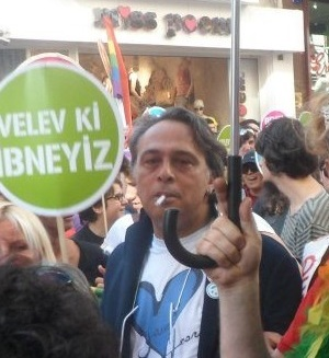 2012 Gay Pride Parade, Istanbul.